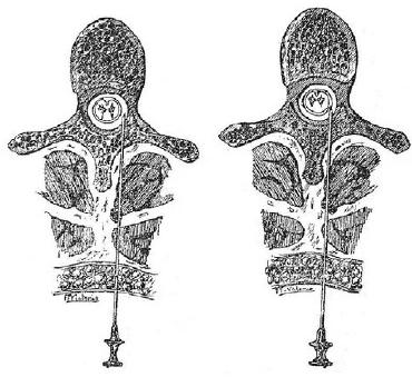 Scheme of epidural anaesthesia by its discoverer Fidel Pagés